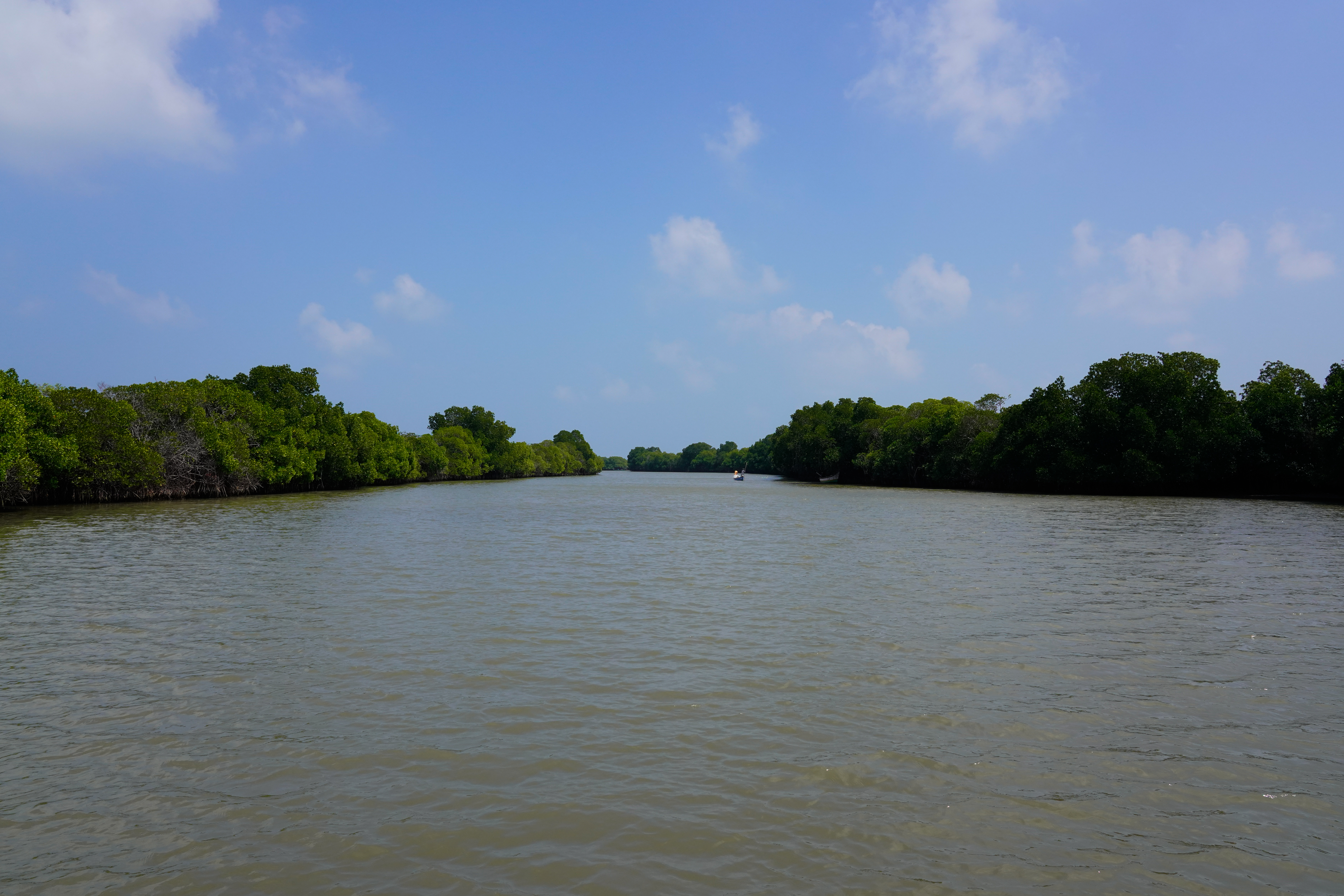 Pichavaram Mangrove Forest